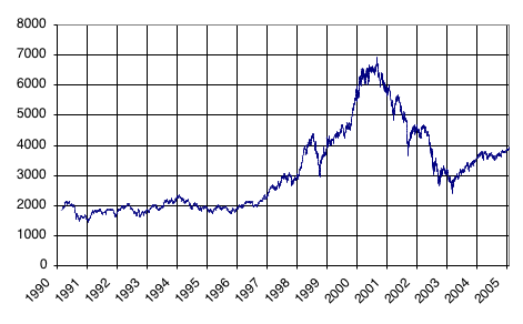 Price evolution of the CAC 40 between March 1, 1990 and February 1, 2005